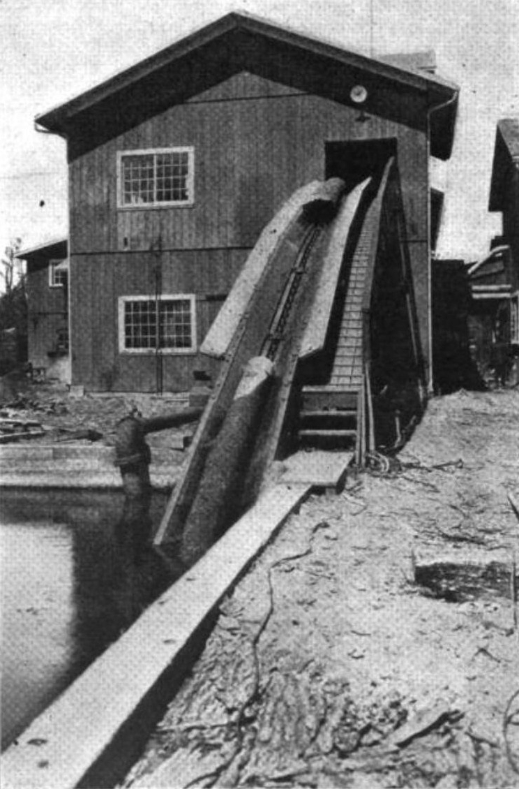 Circa 1920 photograph of an American sawmill.